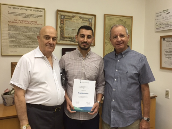 The 8th and 2017 Prize was awarded to Mr. Ibrahim Omar, a PhD. student who works on acute lymphoblastic leukemia (ALL) which is the most common malignancy diagnosed in children. Ibrahim was recognized for his studies novel therapeutic targets which will specifically inhibit ALL development and progression in children. At the ceremony, Ibrahim gave a short presentation of his research.